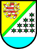 Coat of arms of the Verwaltungsgemeinschaft Leubetal (collective municipality Leubetal)